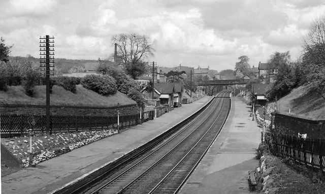 Belper Station. View northward, towards Ambergate, then Chesterfield, Sheffield etc., or Mtalock, Buxton and Manchester; ex-Midland Main lines from Derby, Leicester, London, also Birmingham and Bristol.